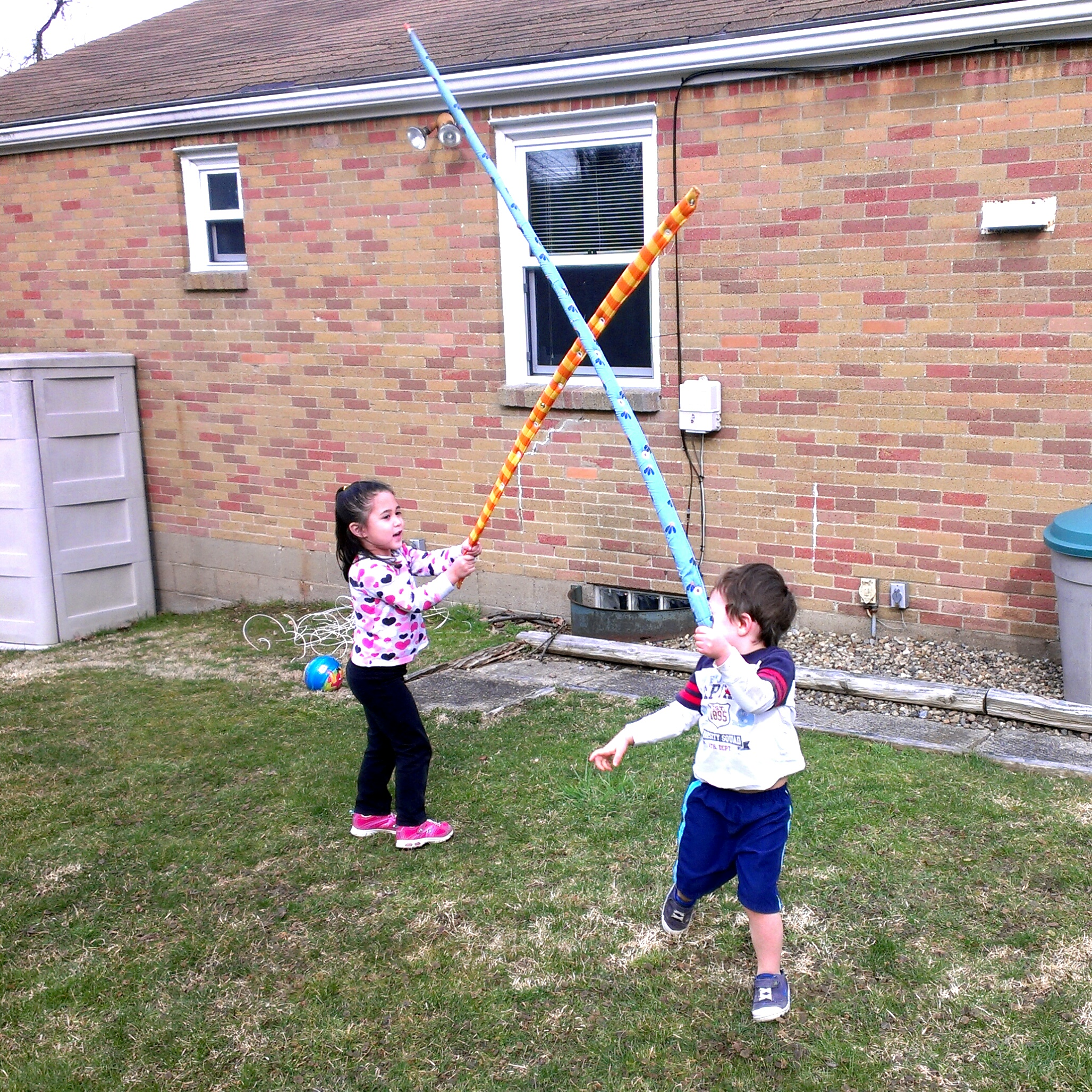 Children playing at lightsaber combat.